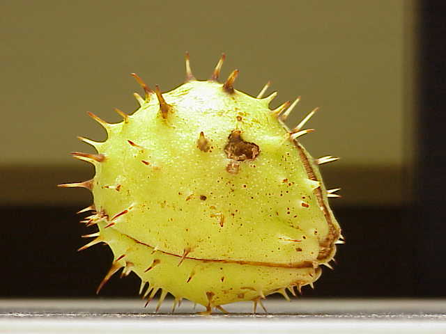 Species: Aesculus hippocastanum Family: Hippocastanaceae Image No. 9